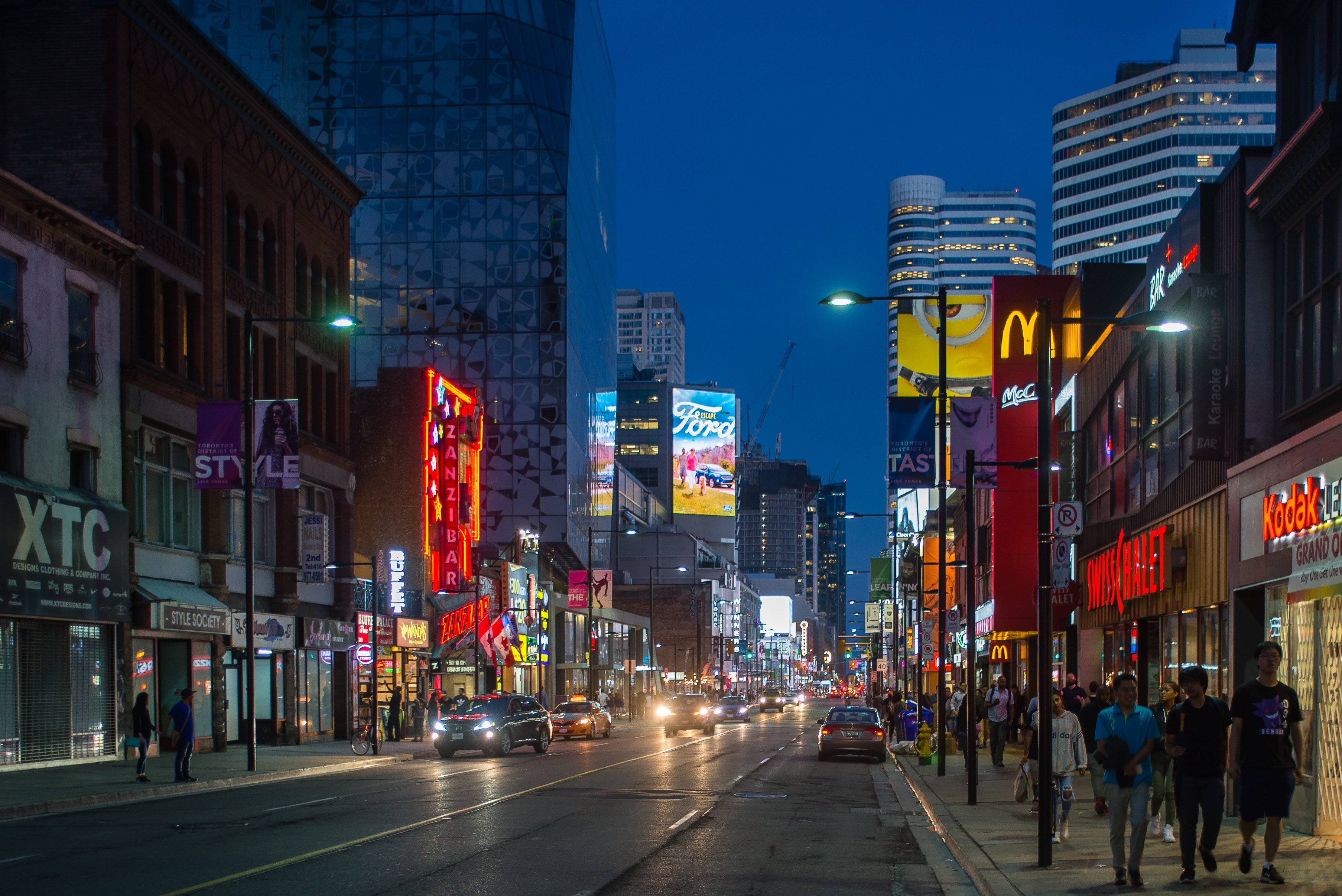 Yonge street, Toronto.